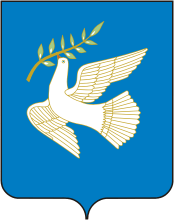 Blagoveschensk (Bashkortostan), coat of arms